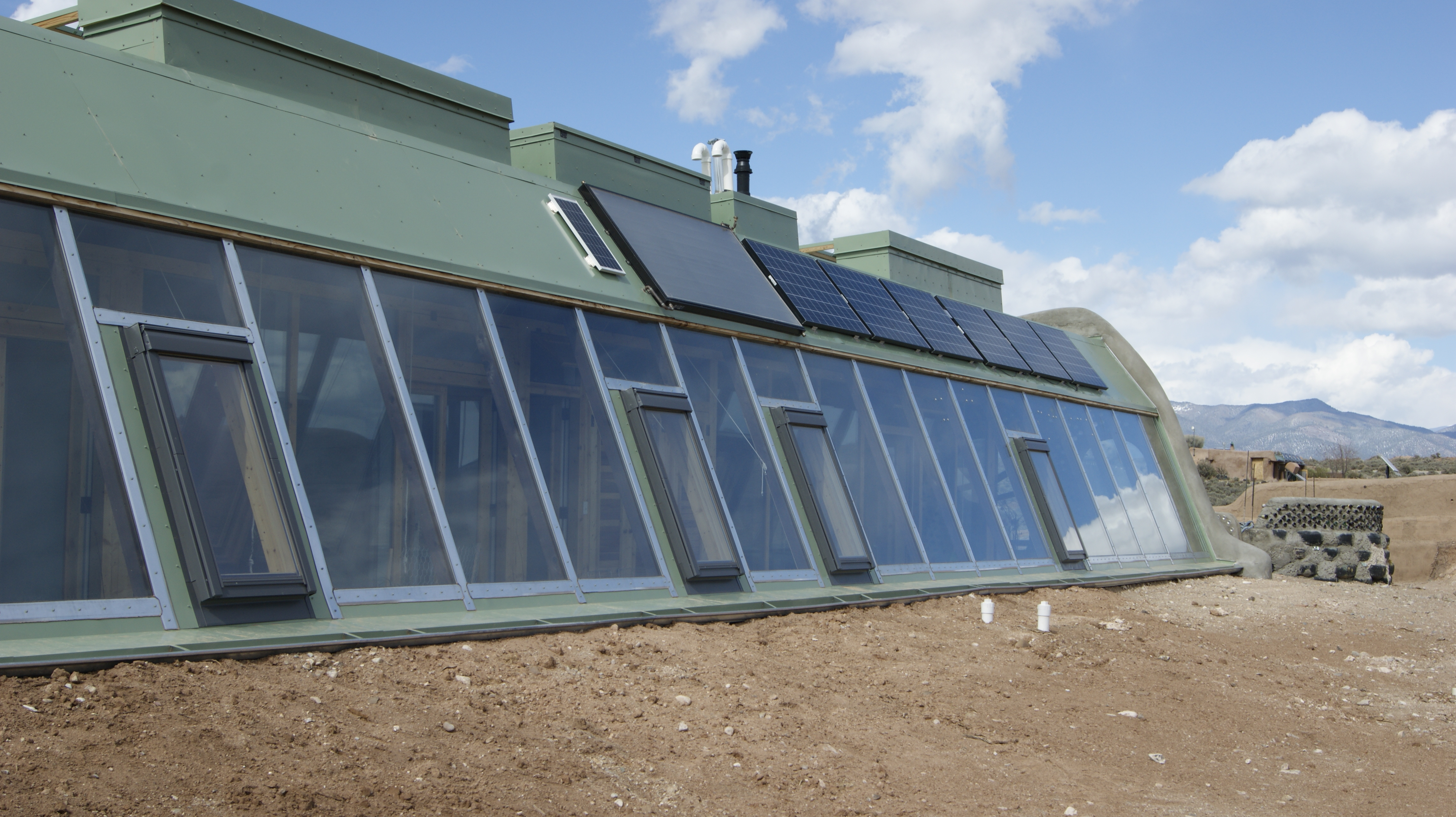 Recently constructed Global model Earthship located in Taos N.M.